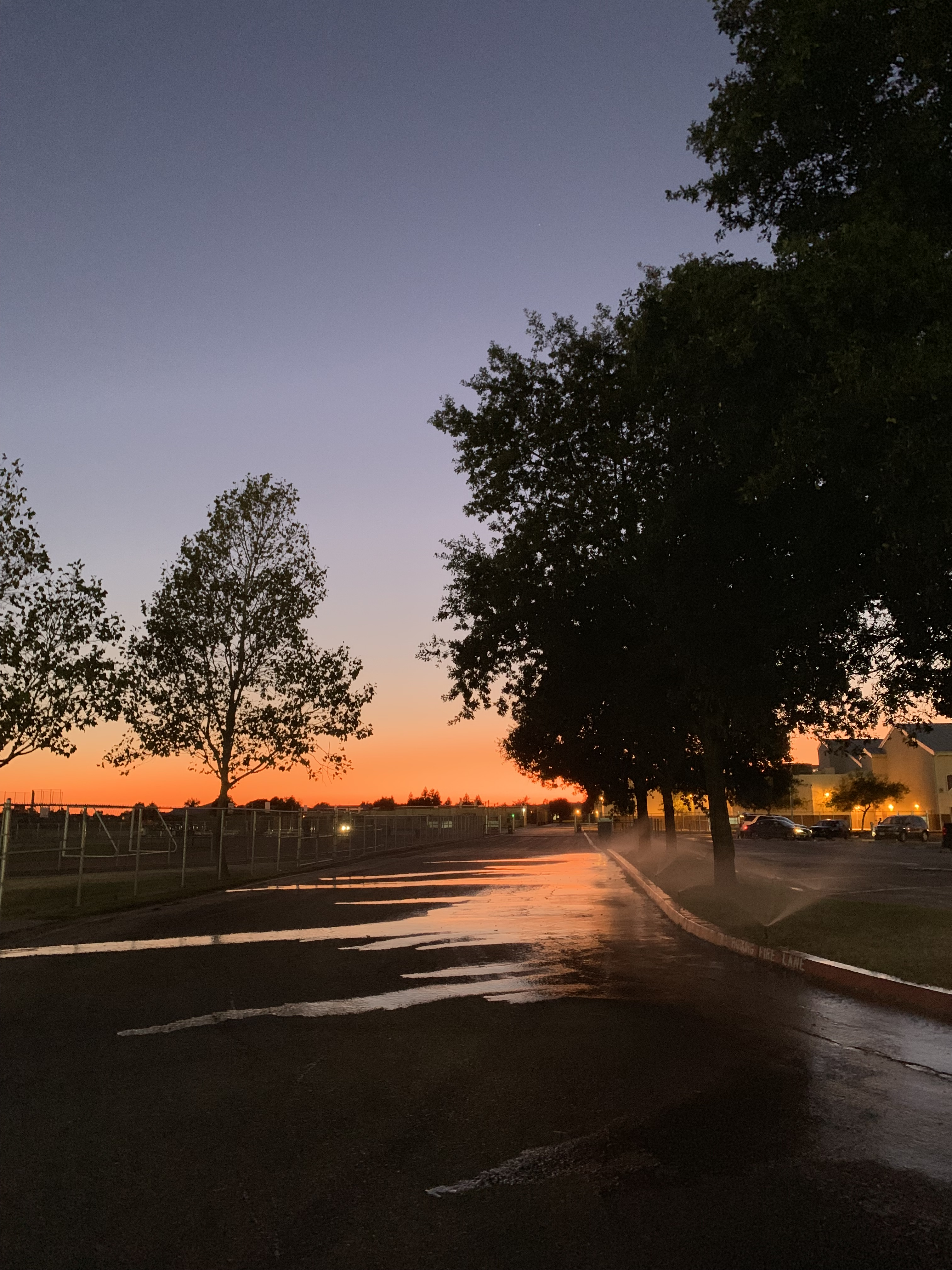 Franklin highschool within Elk Grove Unified School District